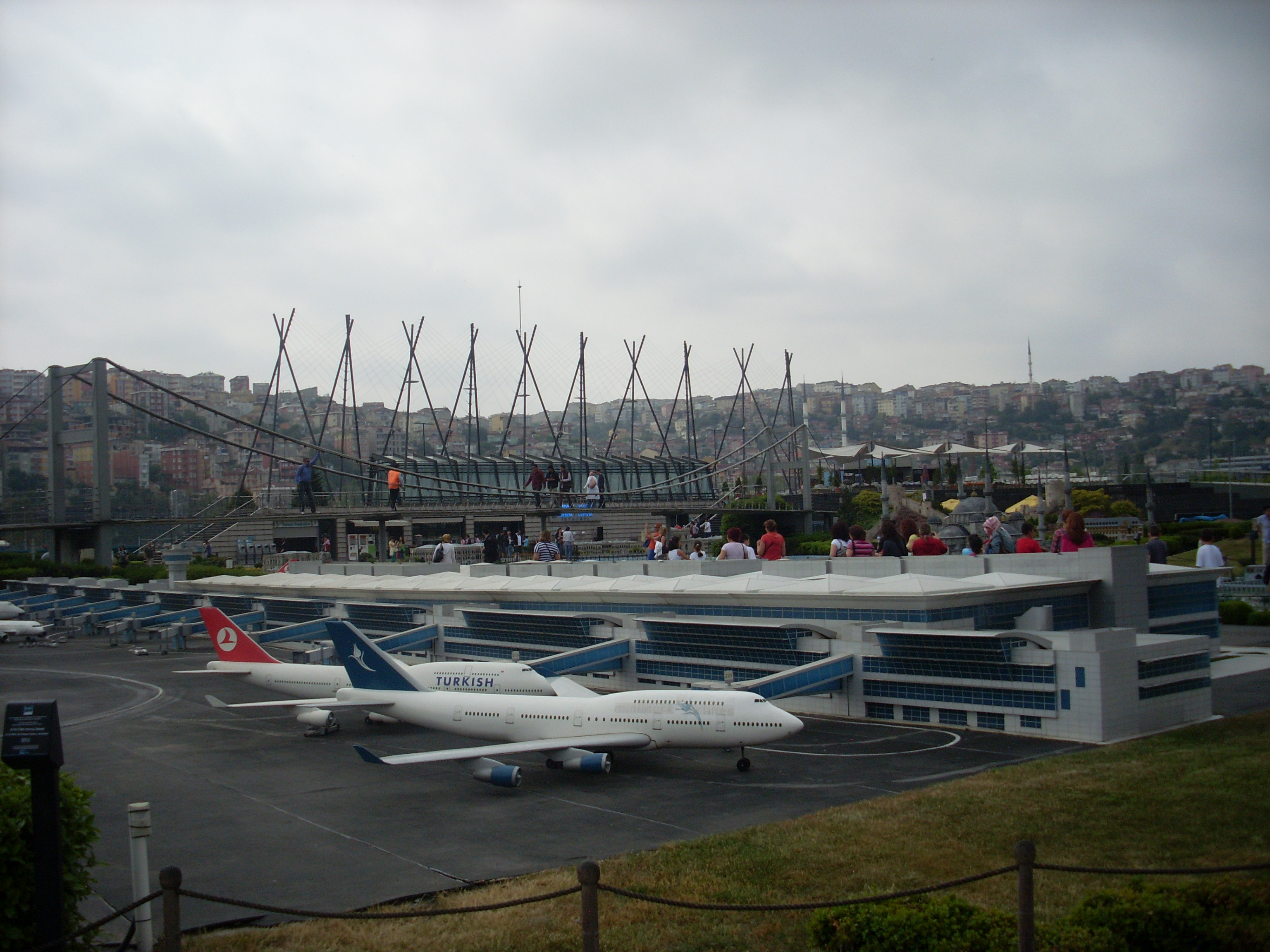 Miniaturk - Atatürk Havalimanı